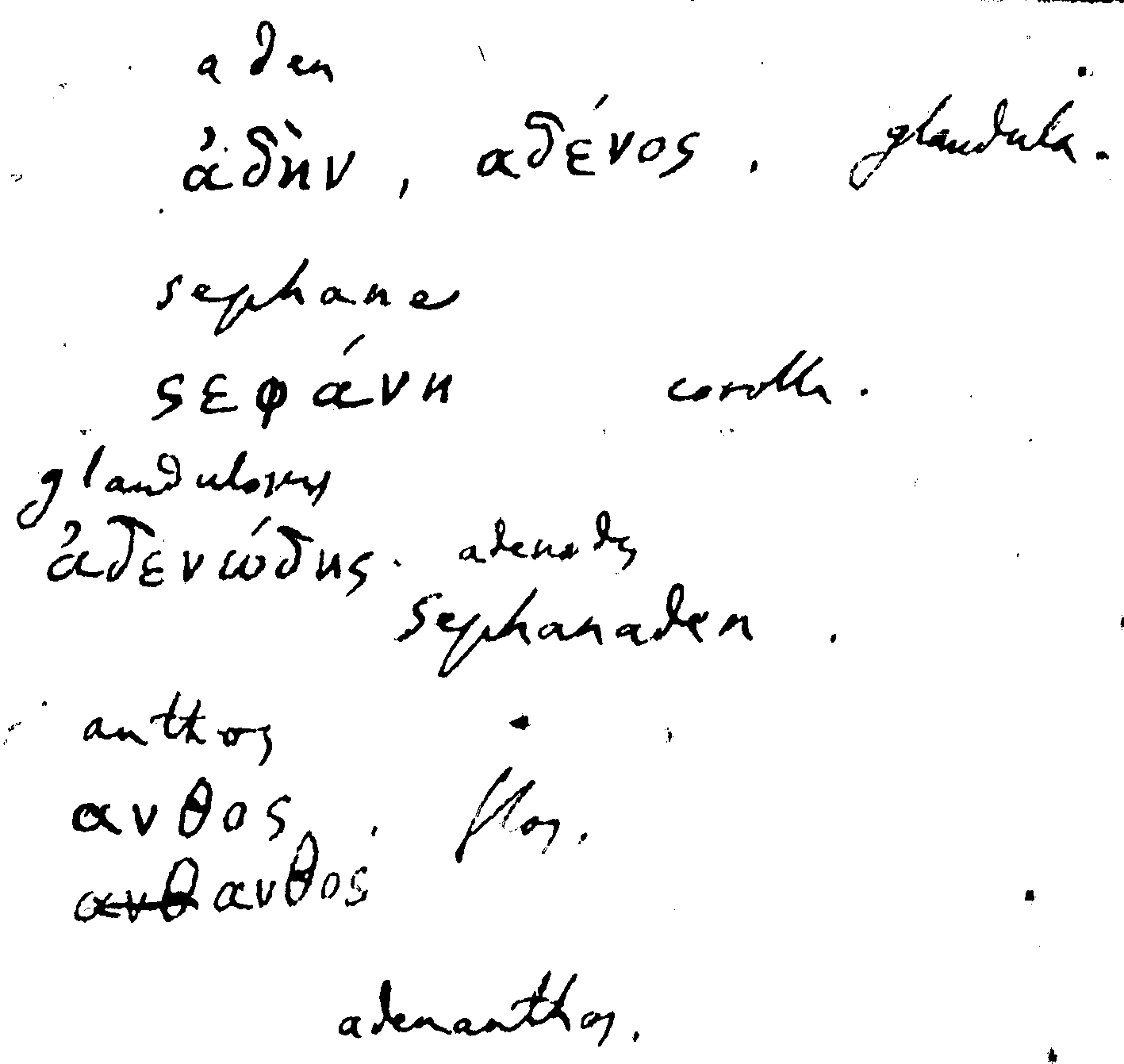 Crop of a small portion of a page from the unpublished manuscript notes of French botanist Jacques Labillardière, showing his derivation of the plant genus name Adenanthos.